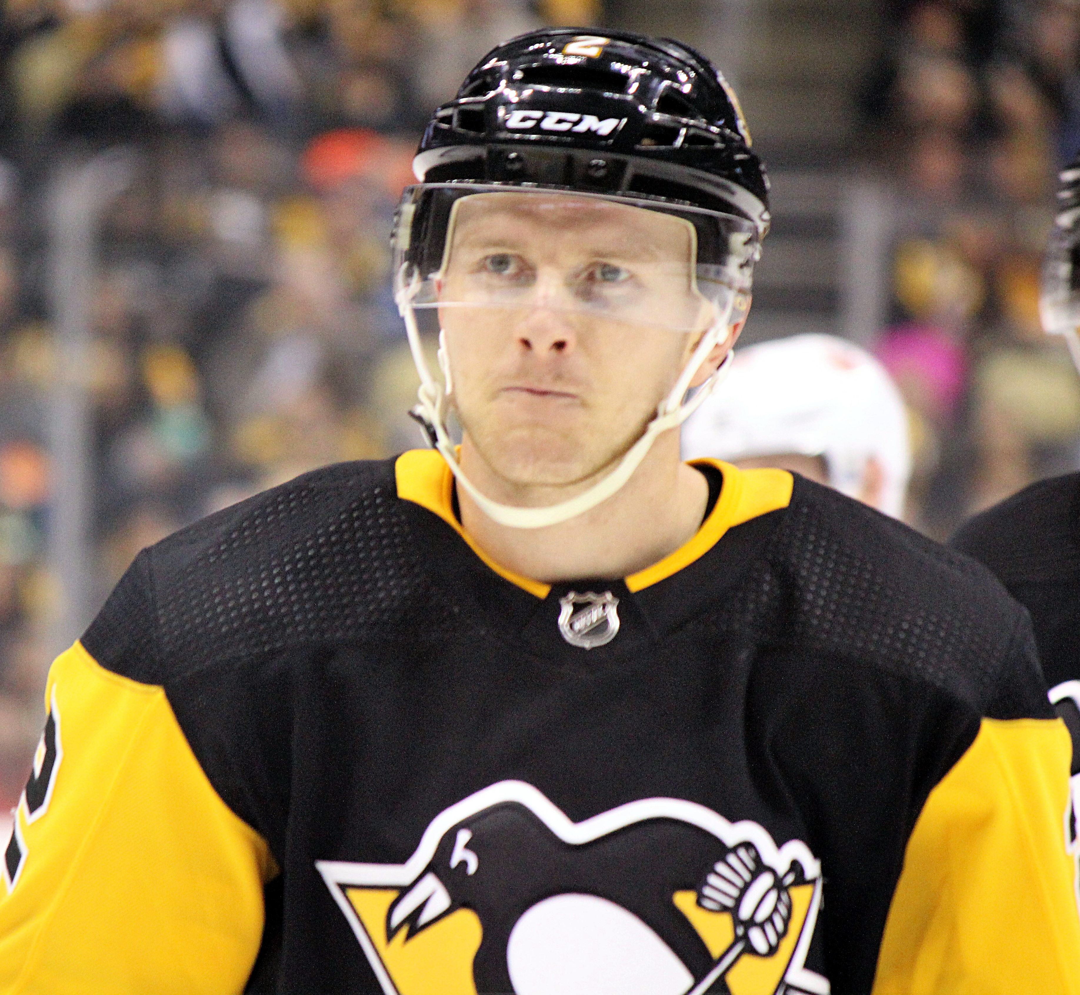 Pittsburgh Penguins defenseman Chad Ruhwedel during a game against the New York Islanders, Saturday, March 3, 2018, at PPG Paints Arena in Pittsburgh, PA.